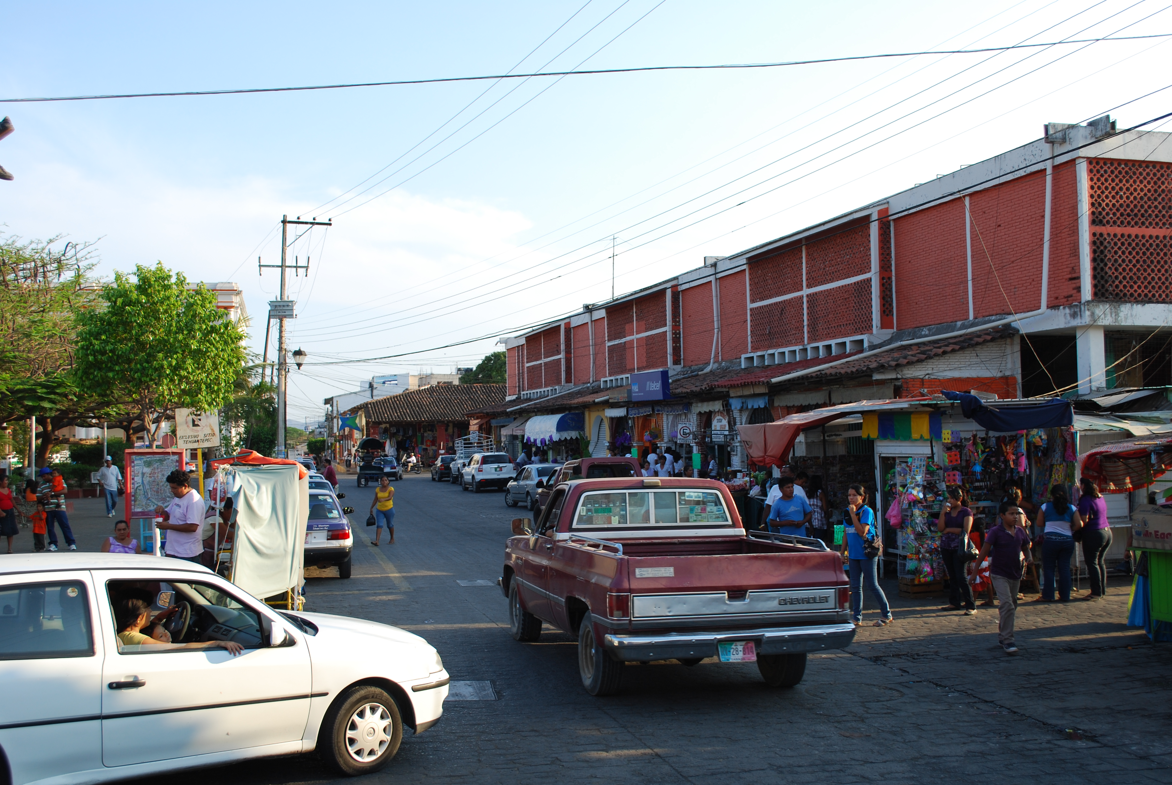 view of the main market in Santo Domingo Tehuantepec, Oaxaca, Mexico